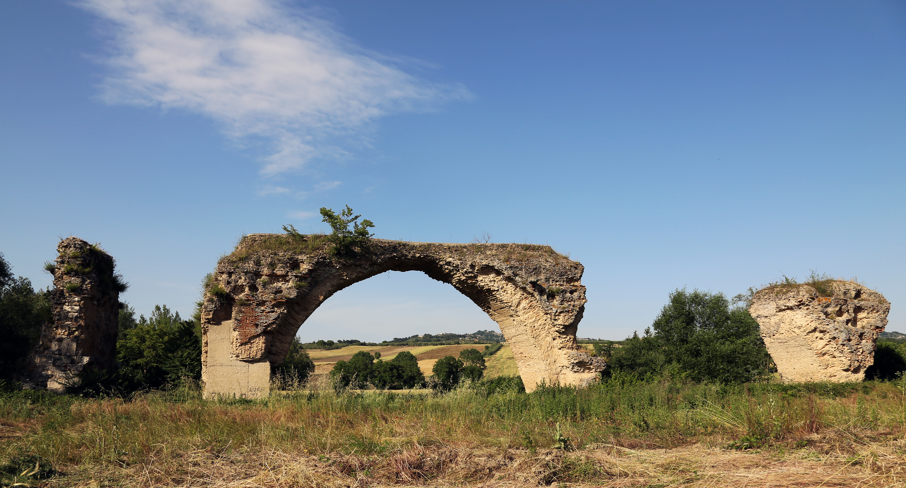 Ponte Appiano